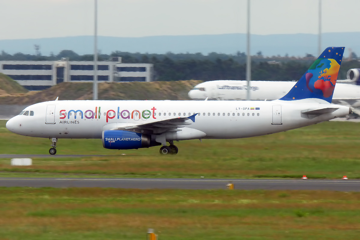 Small Planet Airlines, LY-SPA, Airbus A320-232